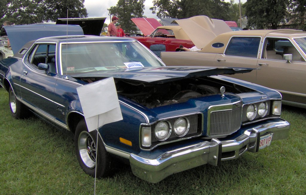 1976 Mercury Cougar